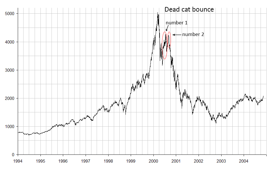 A rendering of the NASDAQ Composite index from 1994 to 2005, showing the stunning peak in early 2000 that coincides with the dot-com bust.